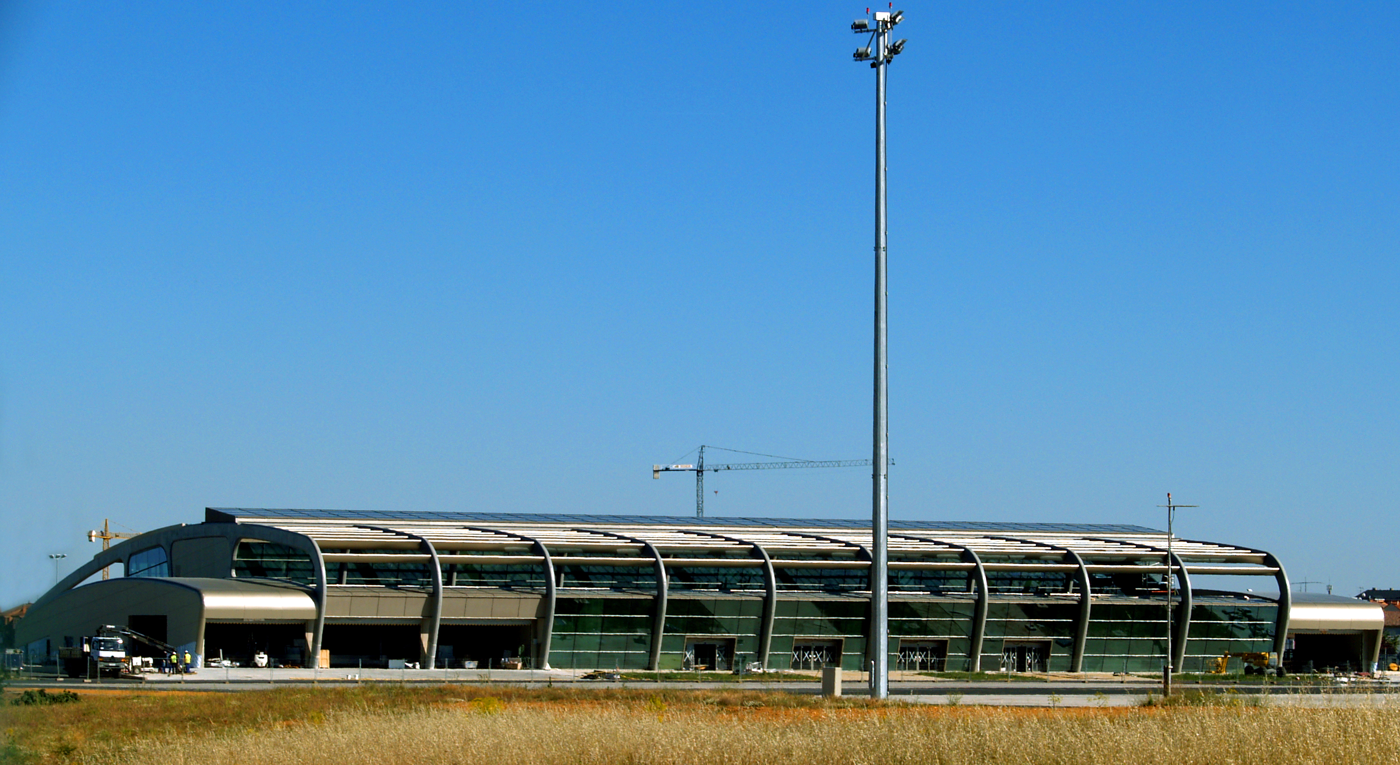 New Terminal in León International Airport (LEN)